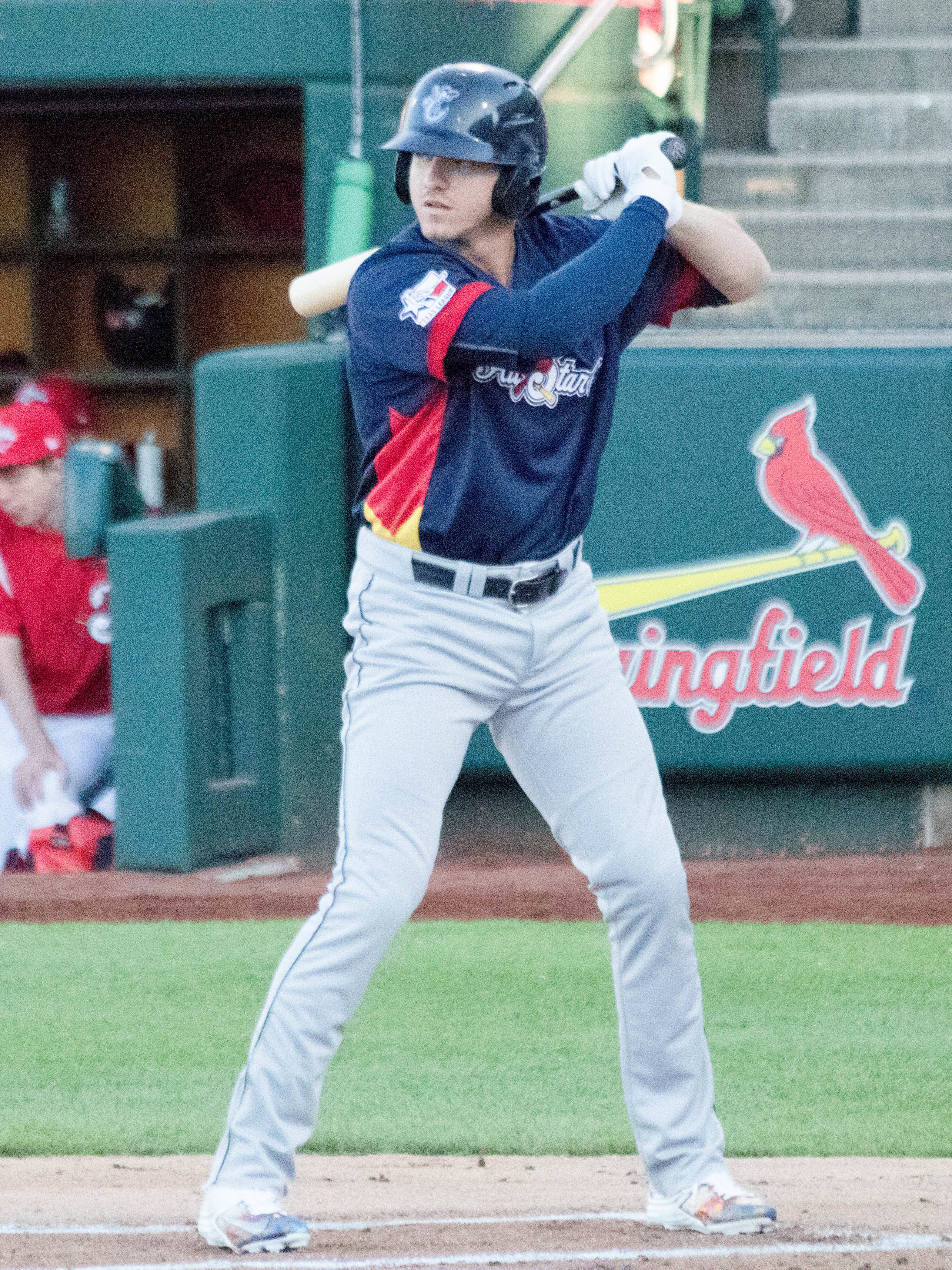 Derek Fisher bats in Springfield, Missouri in 2016.